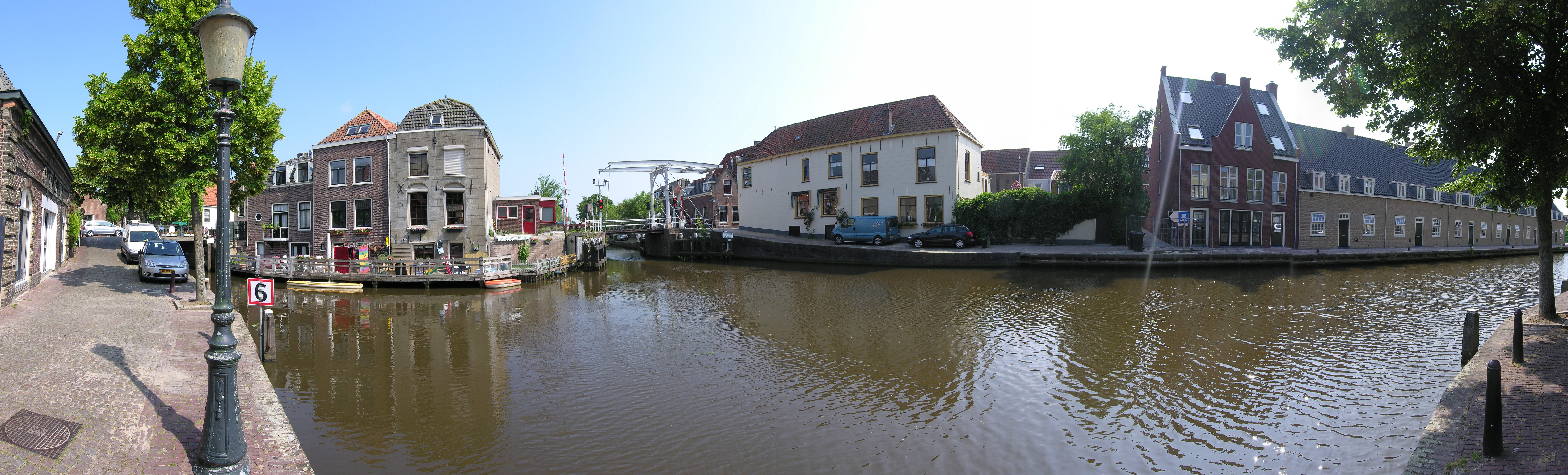 Panorama of Oudewater